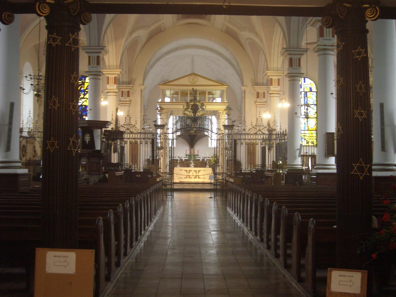 Nave of Derby Cathedral